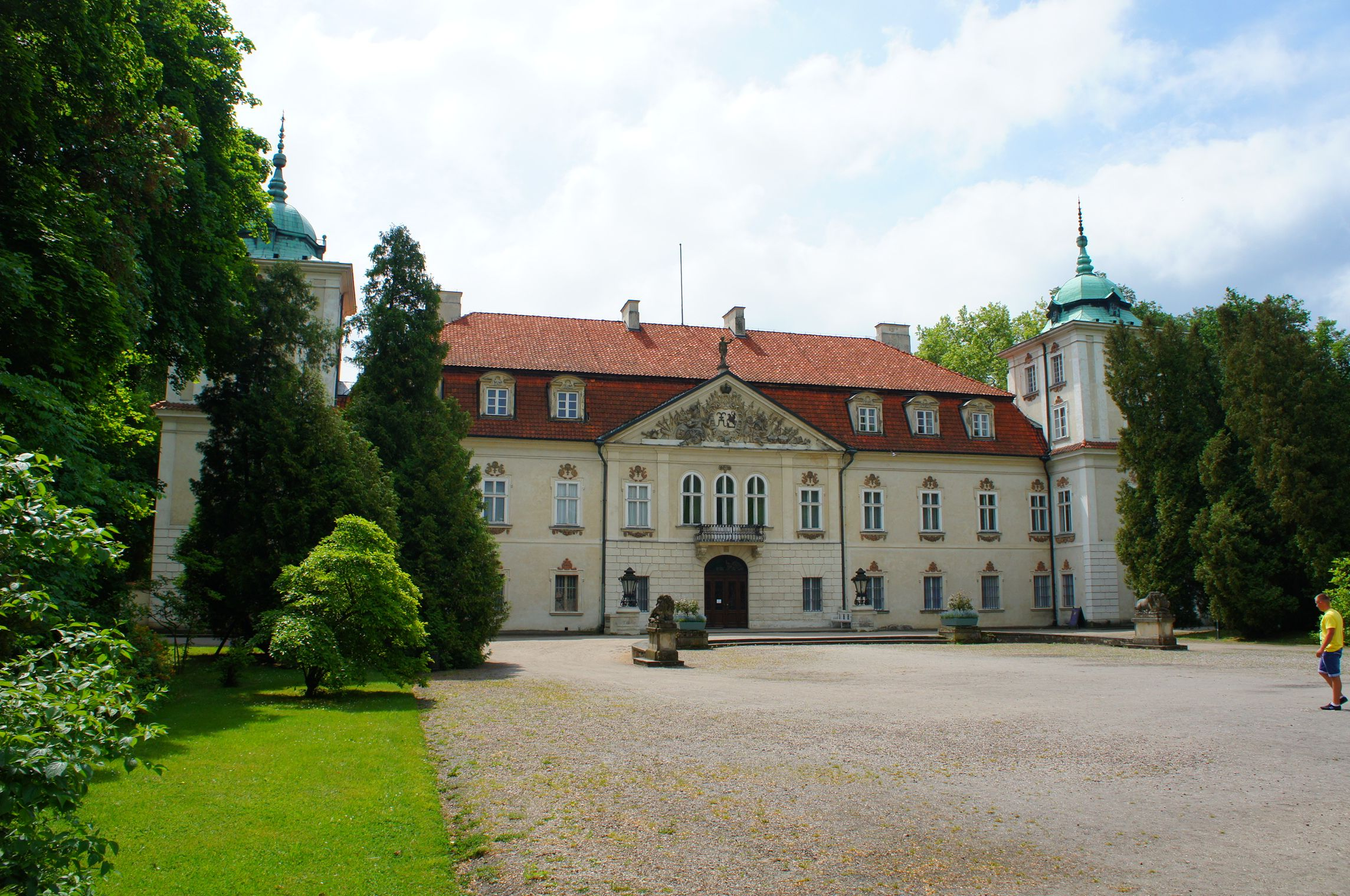 Nieborów, Poland